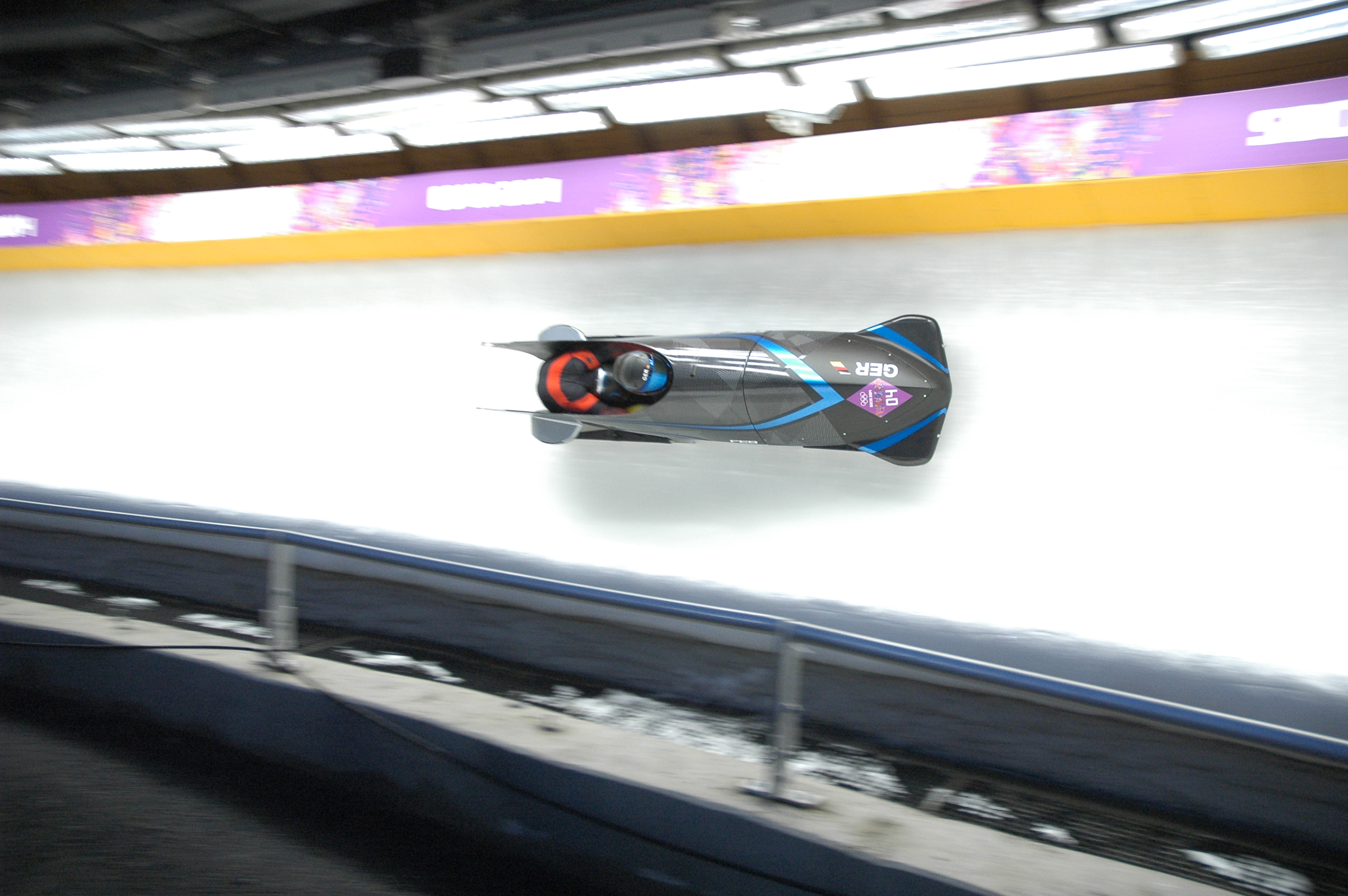 Two-man bobsleigh, 2014 Winter Olympics, Germany(04) run 3